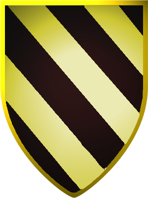 Coat of arms of Dinjicici noble family